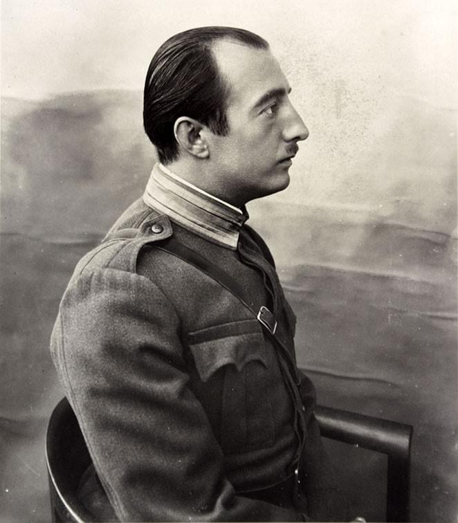 Zog I side portrait